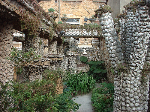 Garden named Rosa Mir in Lyon in France - alley